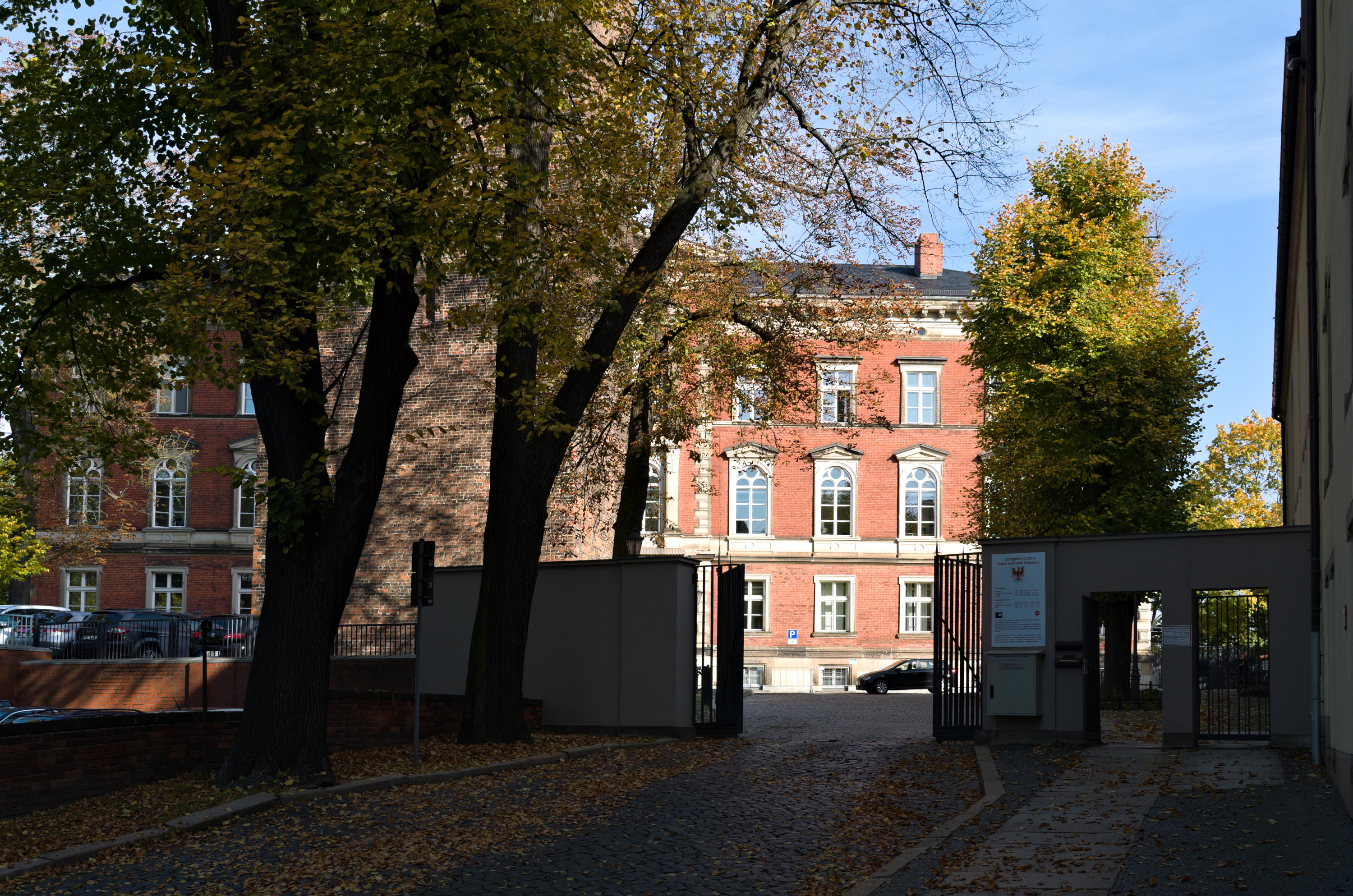 District court Landgericht Cottbus, Gerichtsstraße 3/4 in Cottbus-Mitte.